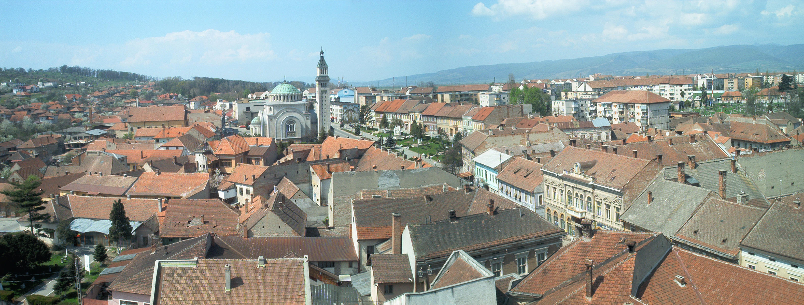 enA view of the city of Orăştie, Romania.